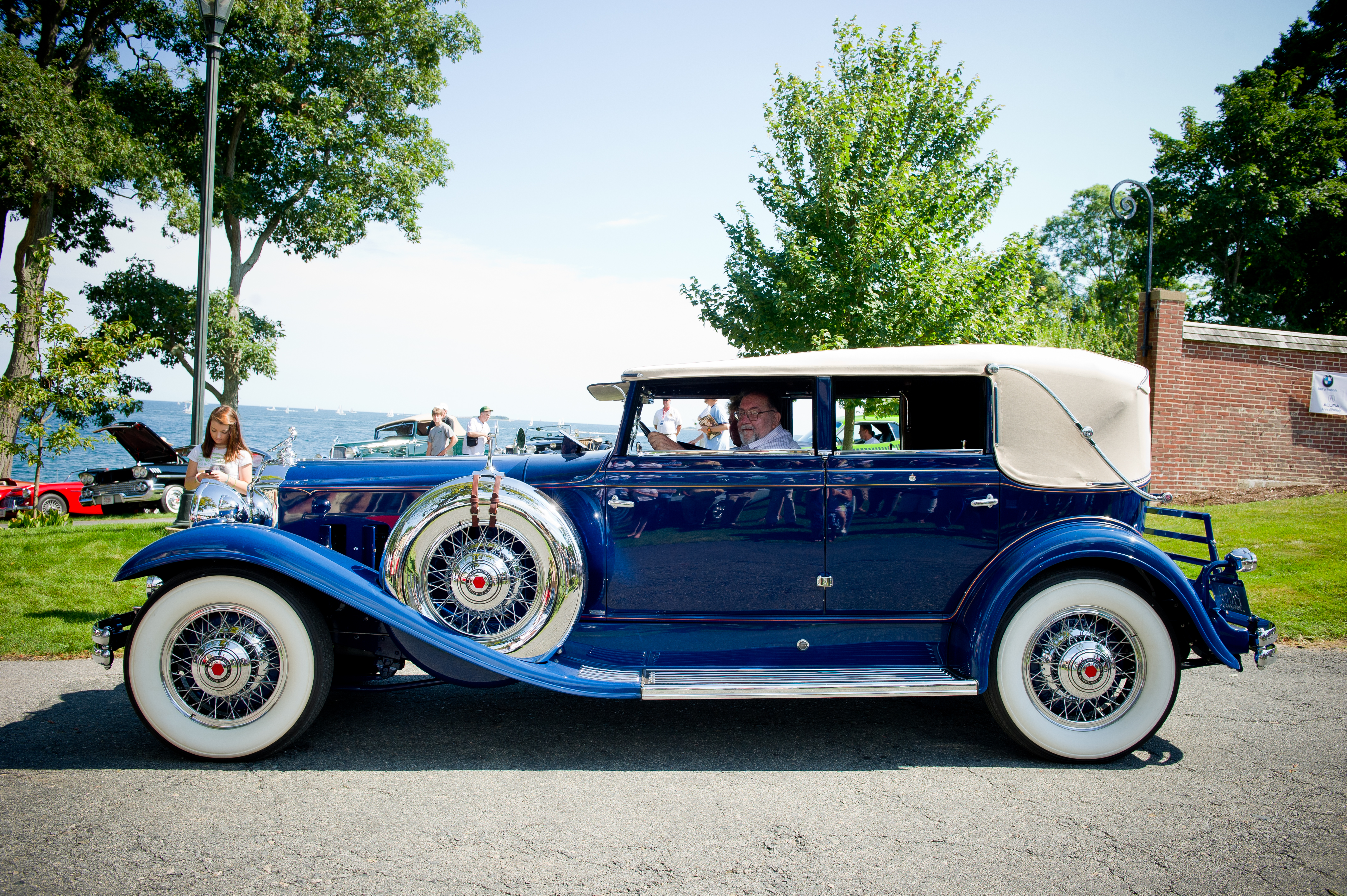 Winner of the 2010 Misselwood Concours d'Elegance, a 1931 Packard 840 Dietrich convertible sedan.